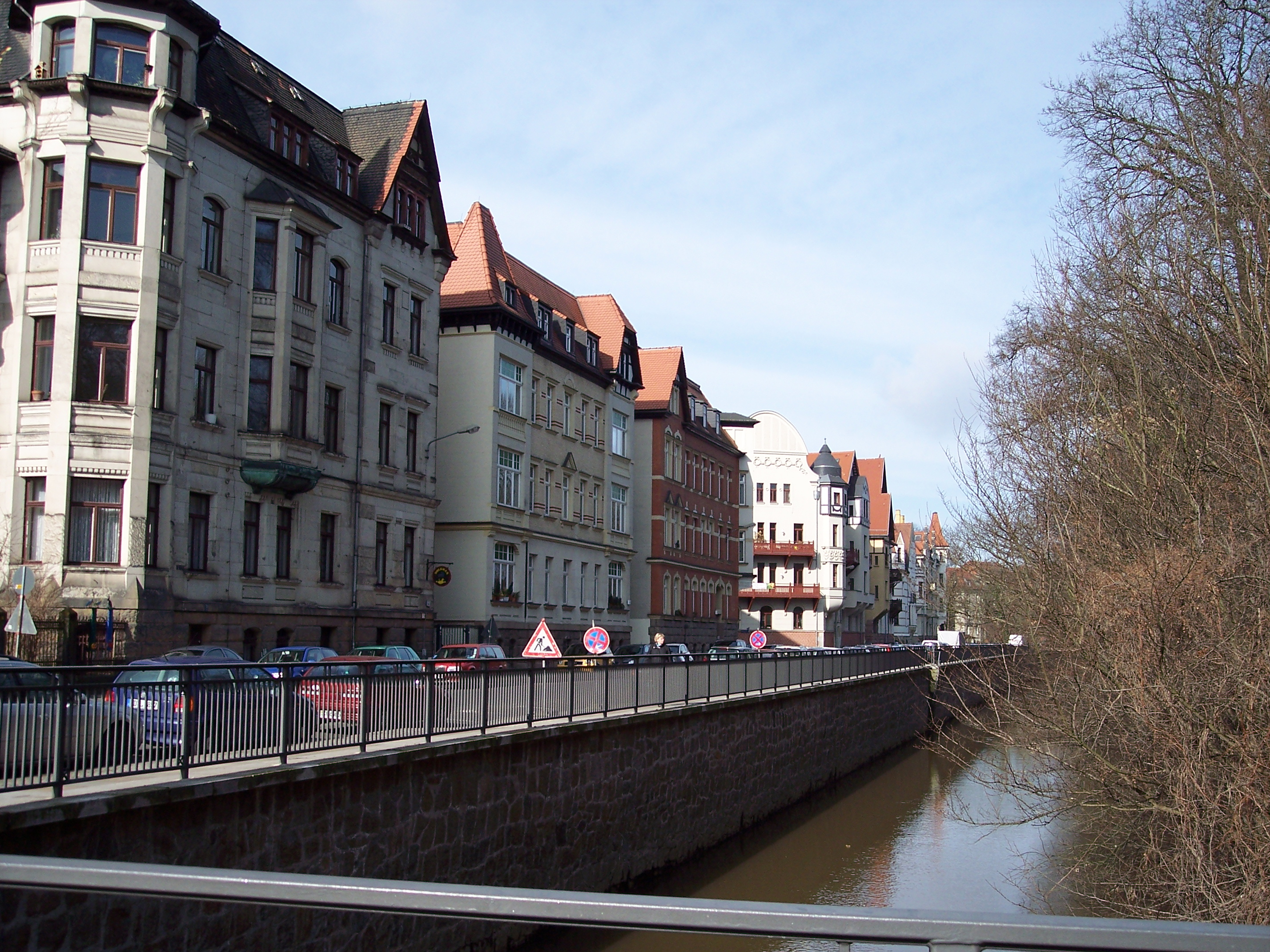 Leipzig: View of the Elster millrace along the street Liviastraße in the quarter Waldstraßenviertel